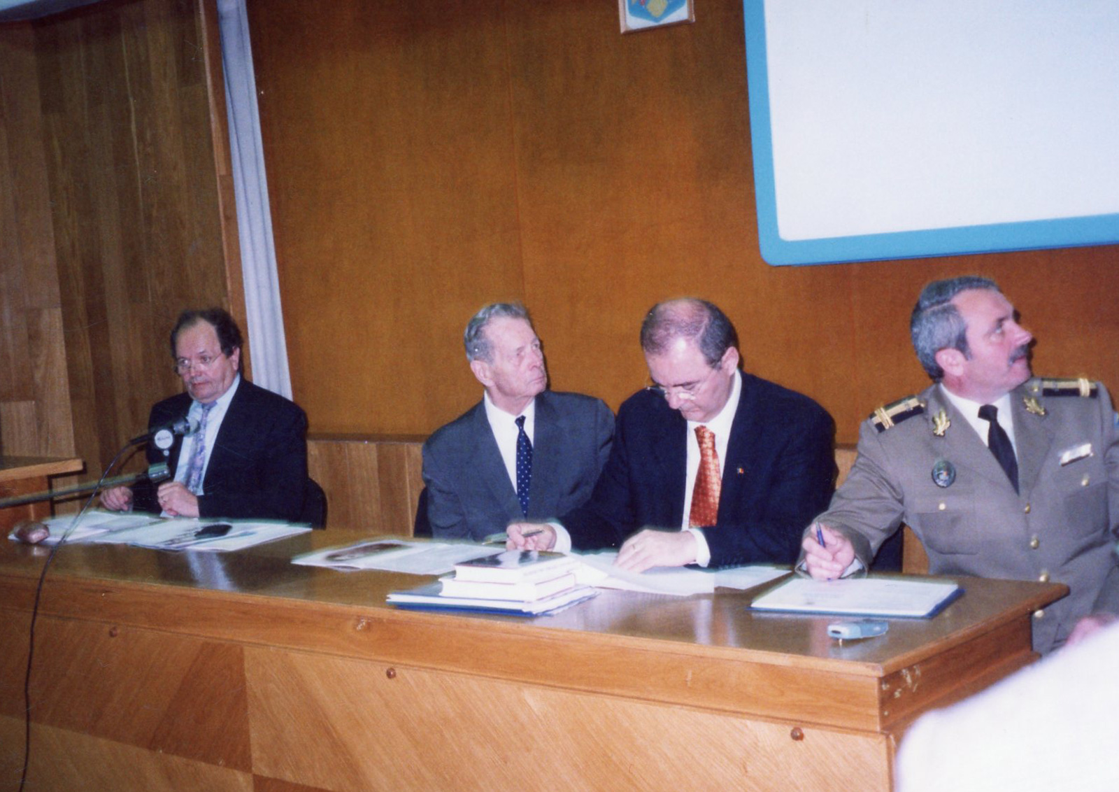 60 years since his mission in Budapest His Majesty King Michael I personally participated in the symposium on "The Royal Romanian Aviation at the Liberation of Budapest" - Ferdinand I Military National Museum, March 2005.